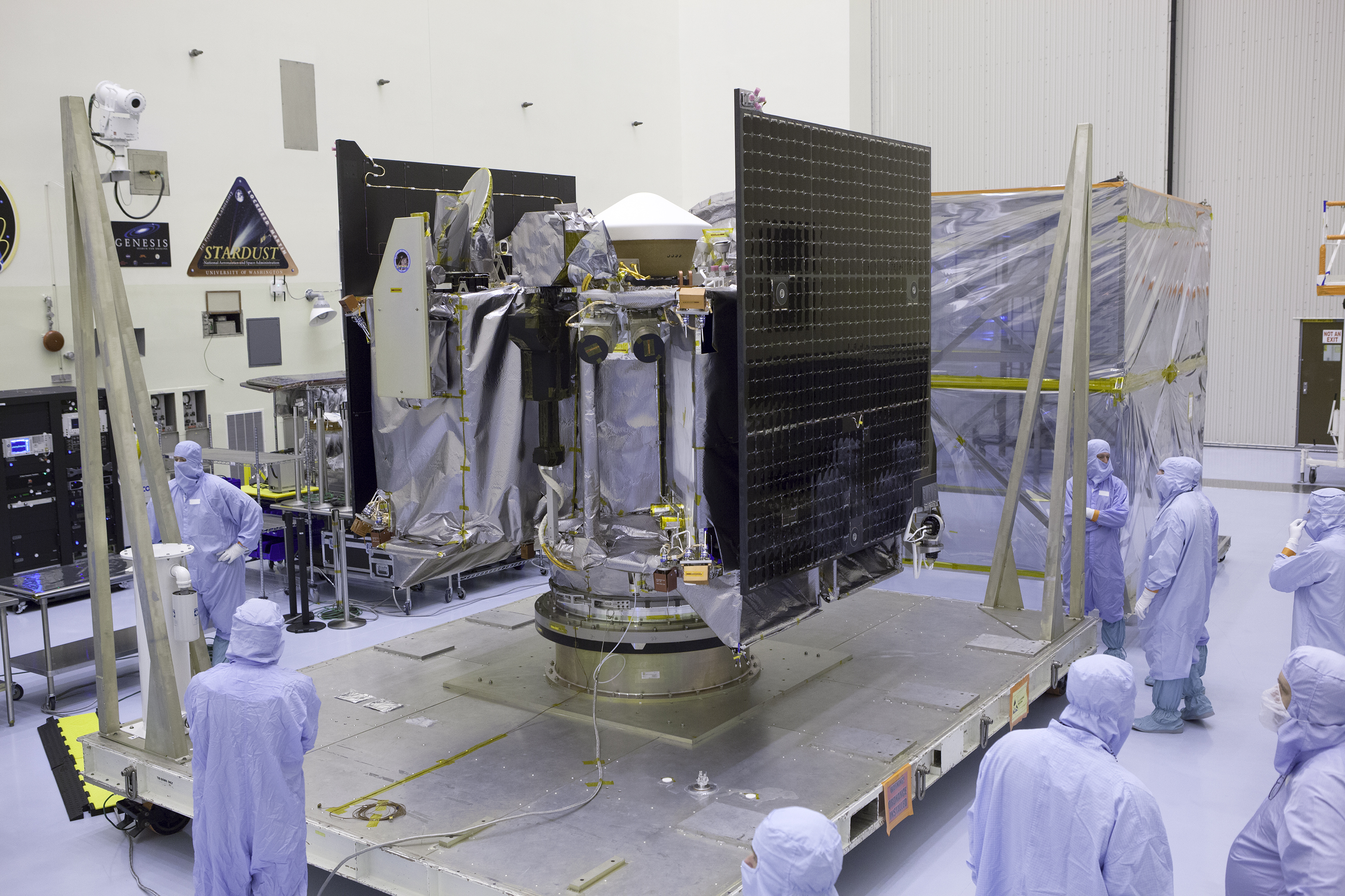 original description: NASA's OSIRIS-REx spacecraft is revealed after its protective cover is removed inside the Payload Hazardous Servicing Facility at Kennedy Space Center in Florida, on May 21, 2016. The spacecraft traveled from Lockheed Martin's facility near Denver, Colorado to Kennedy to begin processing for its upcoming launch, targeted for Sept. 8 aboard a United Launch Alliance Atlas V rocket. After launch, OSIRIS-REx - which stands for Origins, Spectral Interpretation, Resource Identification, Security-Regolith Explorer - has an approximately two-year cruise to reach the asteroid Bennu in 2018. Upon arrival, OSIRIS-REx will spend a year flying in close proximity to Bennu, its five instruments imaging the asteroid, documenting its lumpy shape, and surveying its chemical and physical properties. In 2020, OSIRIS-REx will collect a pristine sample of at least two ounces of the asteroid's surface material that will be returned back to Earth in 2023 for analysis. Bennu is part of the debris left over from the formation of the solar system. It is pristine enough to hold clues to solar system's origin and the source of water and organic molecules found on Earth.